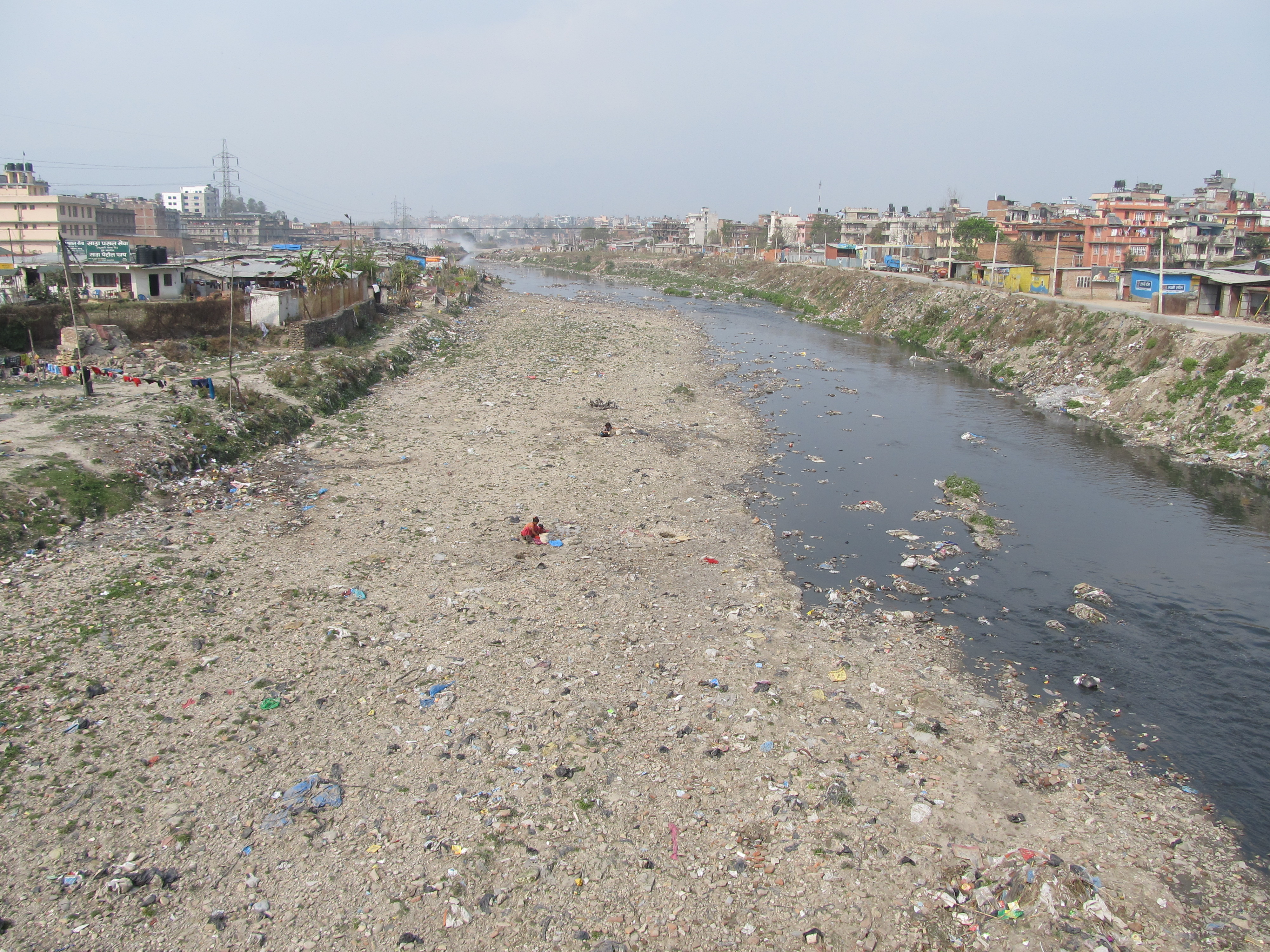 Garbage covered river banks seen from the bridge looking north.